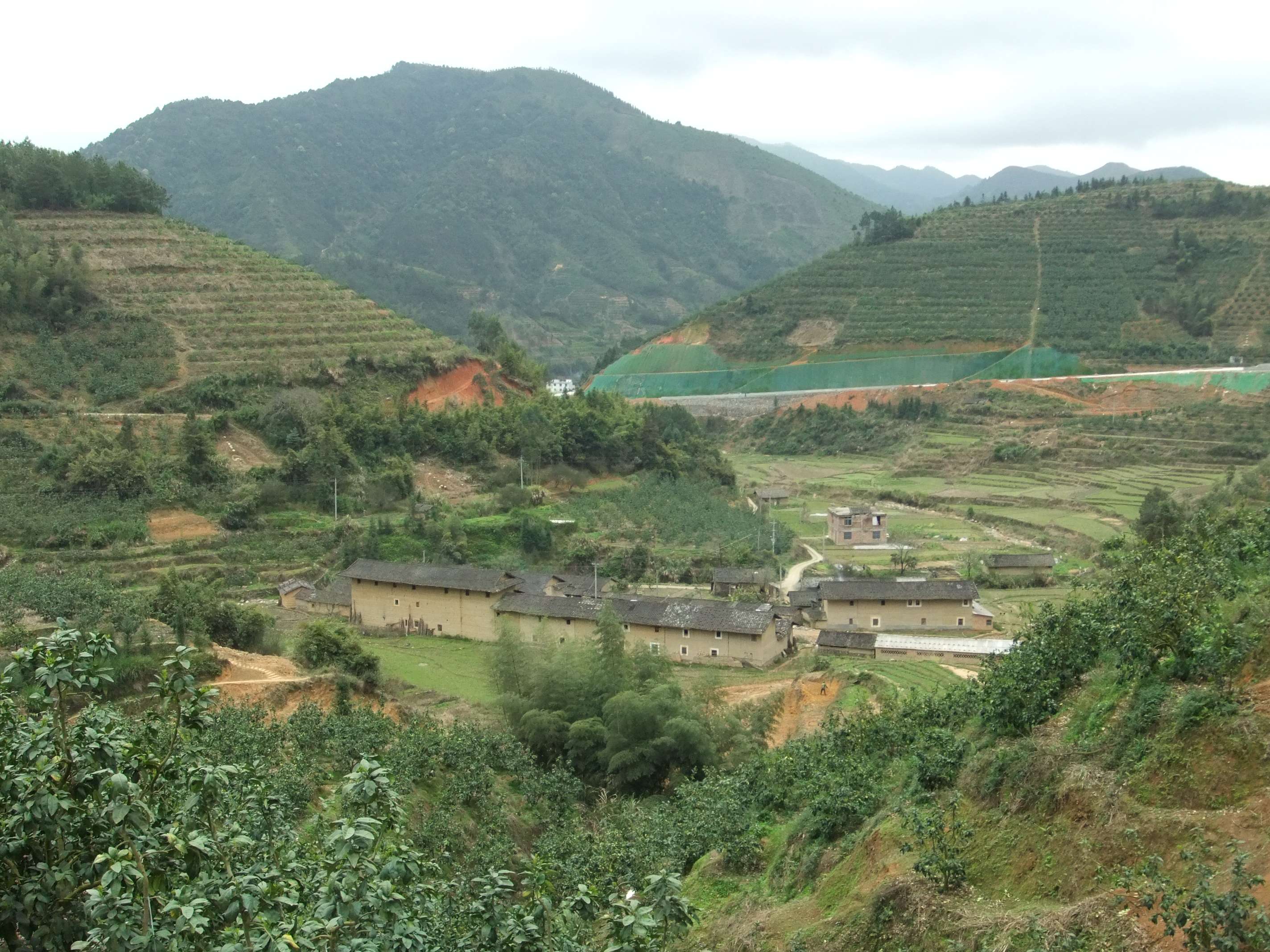 The new Fujian Provincial Highway 309 (S309) between Shijia Village (Hukeng Town, Yongding County) and Luxi Town (Pinghe County). These photos are taken on the Luxi side of the county line. The road is still under construction (it is not even shown on Google Maps yet), but is mostluy open to traffic. The road goes toward south-southwest, following the upper Nanxi Creek valley, toward the mountain range that separates Yongding County (Hukeng Town) from Pinghe County (Luxi Town). There is very little population in this area. The green mesh fabric on mountain slopes, seen in some photos will, presumably, be soon replaced by stone/concrete retaining wall.